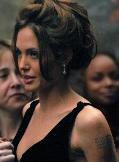 Angelina Jolie at the New York "A Mighty Heart" Premiere, June 12, 2007 (cropped from Image:Angelina Jolie 2007.jpg)